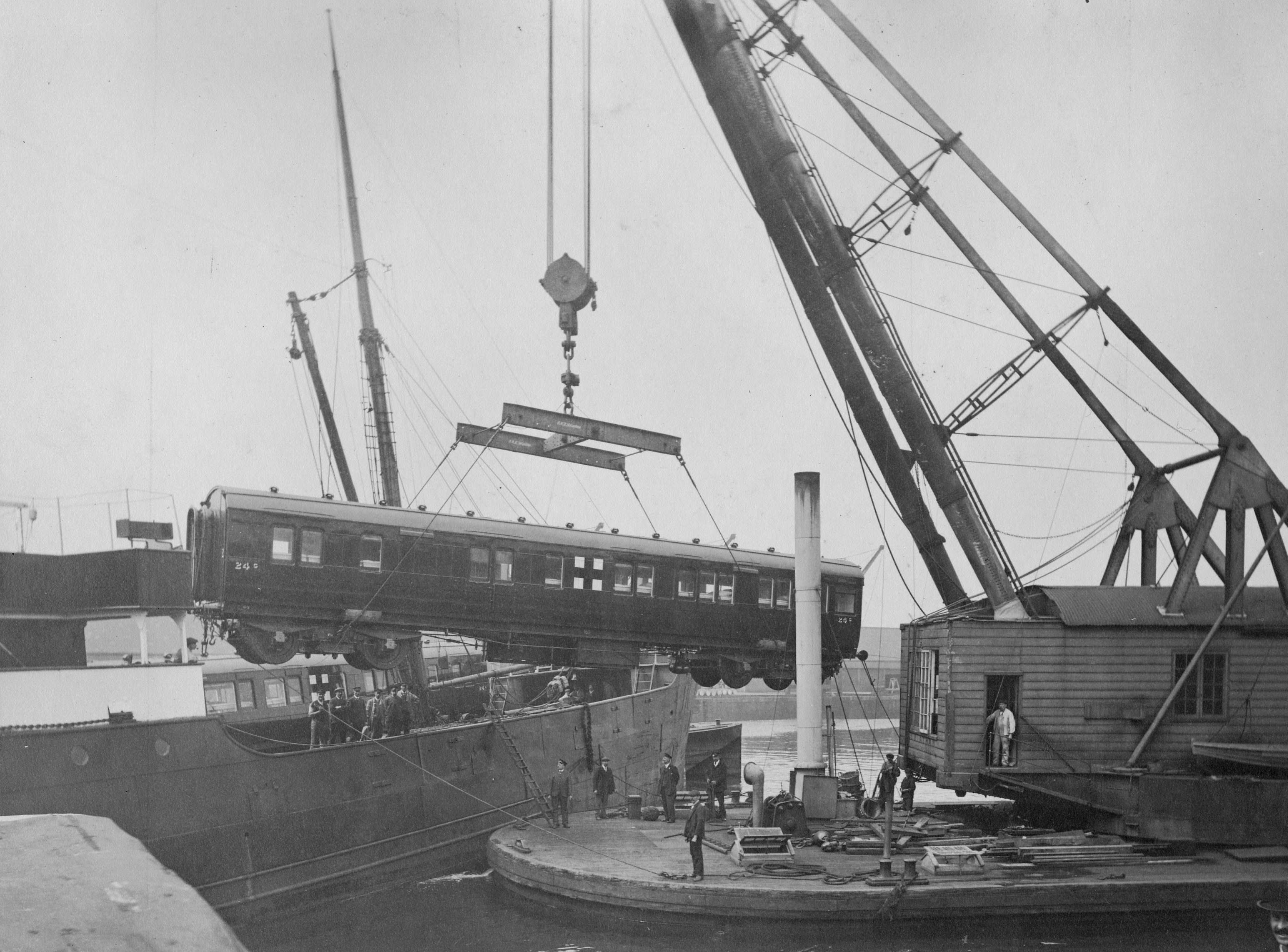 GWR railway carriage, marked with a Red Cross, being loaded onto the SS Africa.